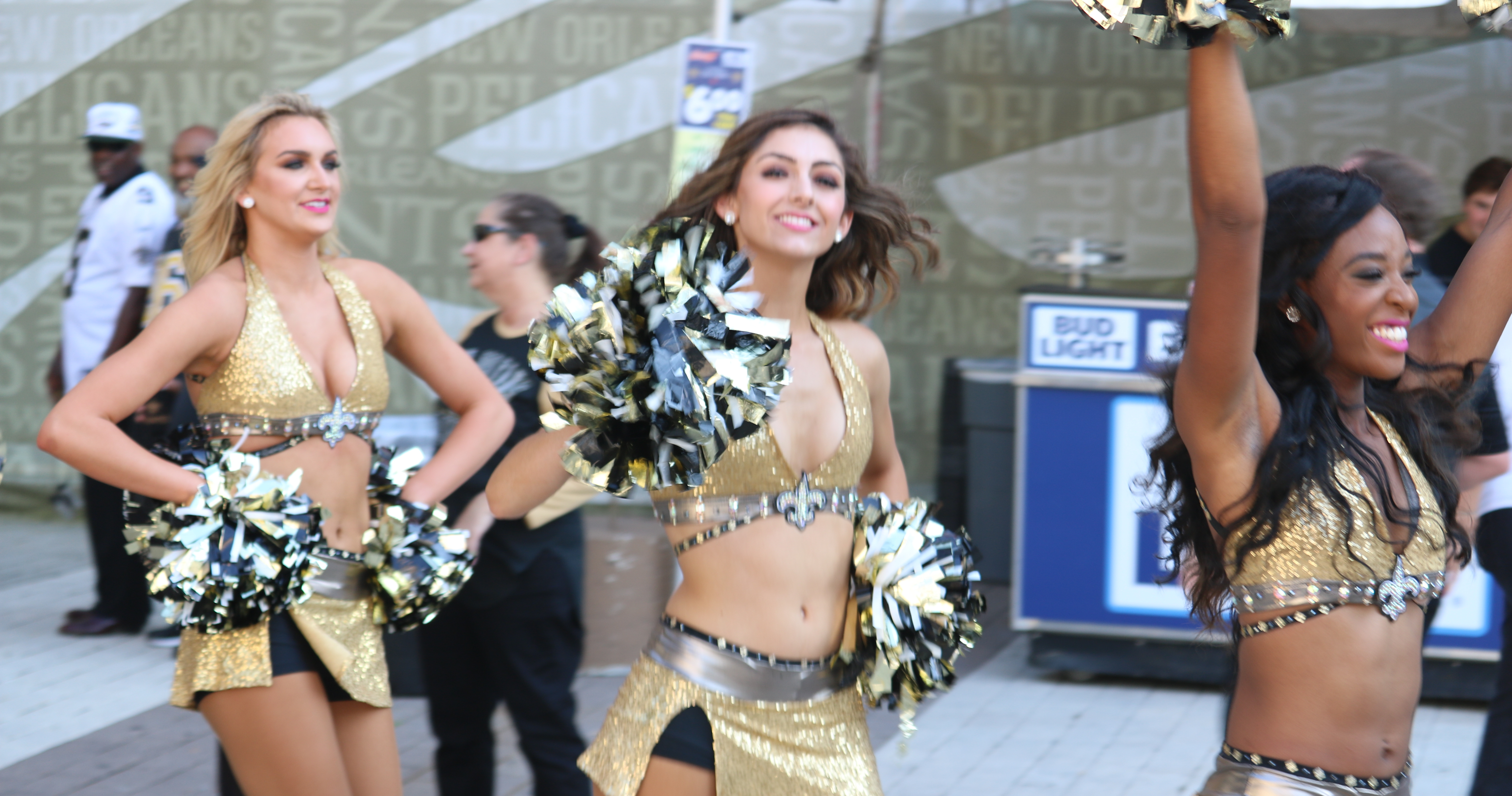 2017 Saintsations take Champions Square!!